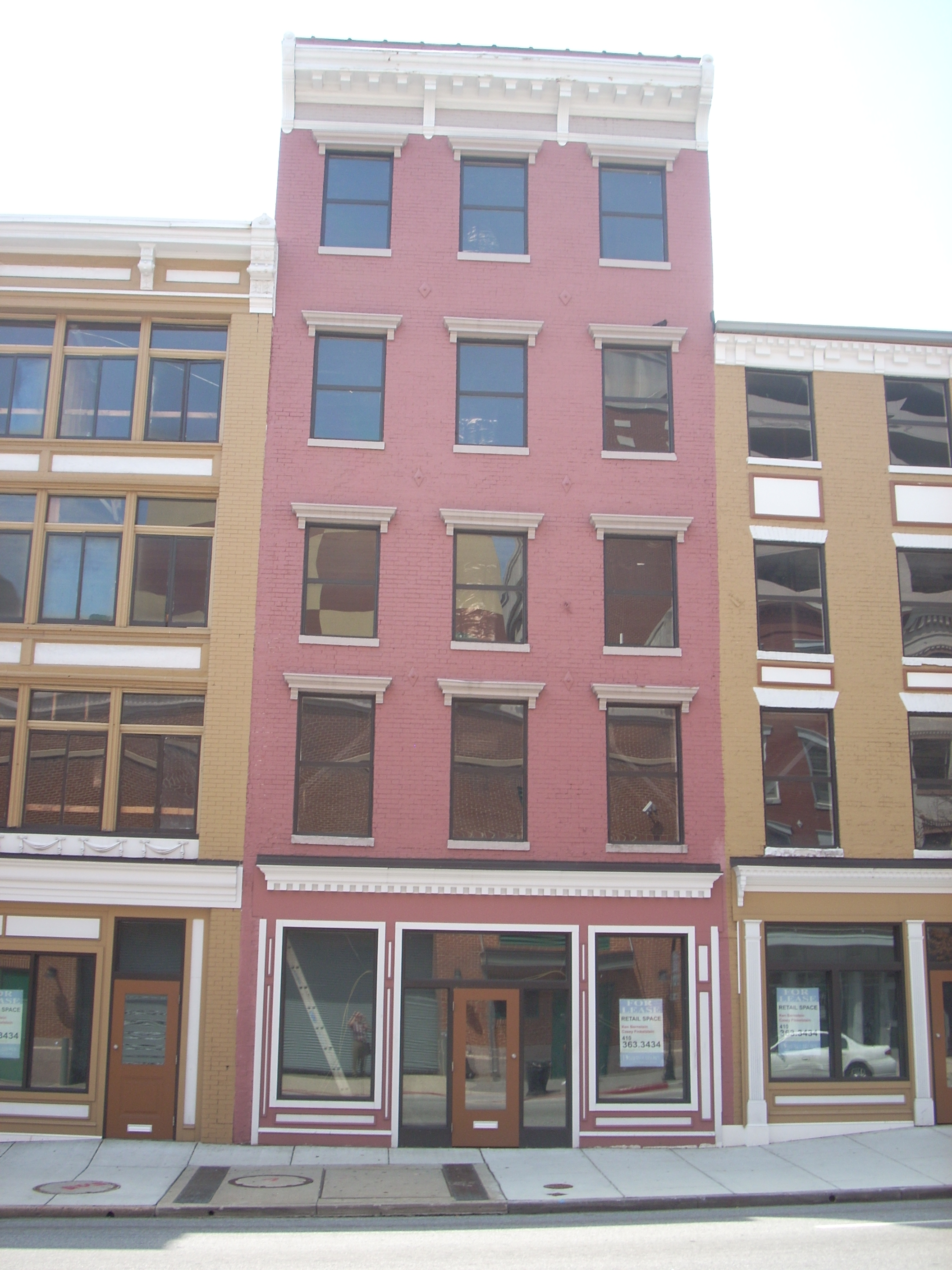 Building at 423 West Baltimore Street, Baltimore City, Maryland Object location39° 17′ 21″ N, 76° 37′ 20″ W